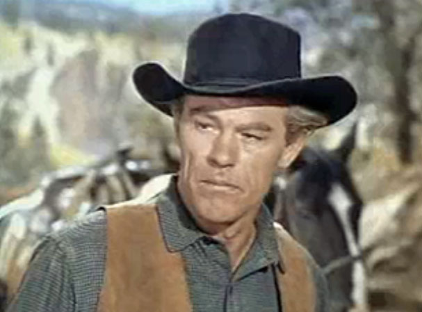 Cropped screenshot of Jack Lambert from the television series Bonanza. Episode: "Showdown" (1960).